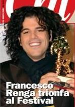 Cover of Chi magazine, March 16, 2005. Arnoldo Mondadori Editore, Mondadori Group.